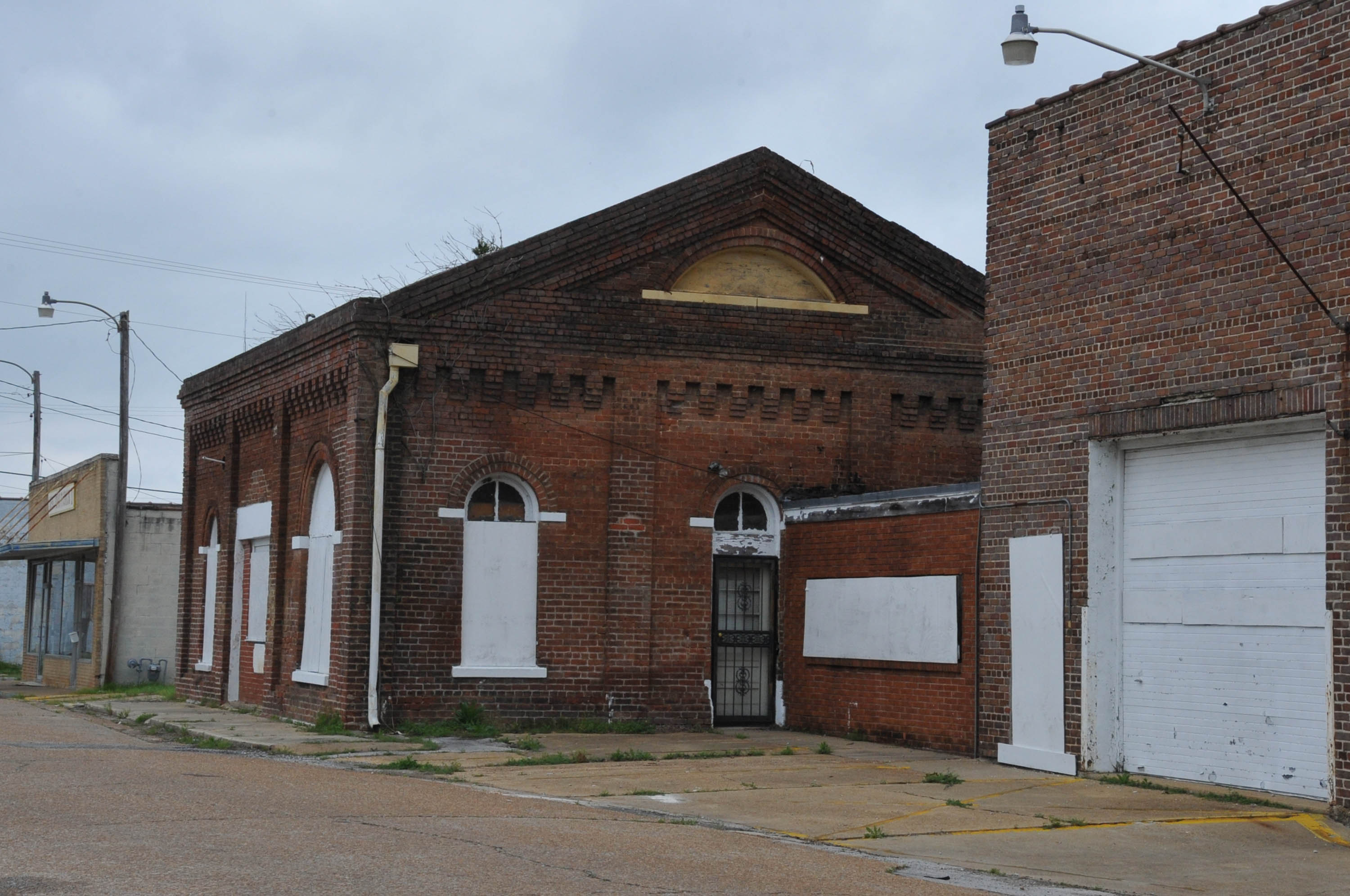 BUILT 1897-1898; AKA THE HOLLY SPRINGS POLICE DEPARTMENT BUT THE BUILDING NOW APPEARS EMPTY